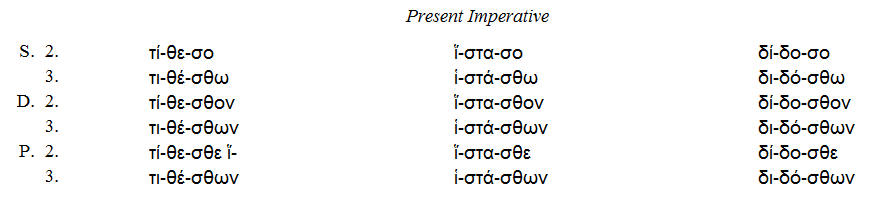 Greek Present Middle/Passive Imperative of tithemi histemi didomi